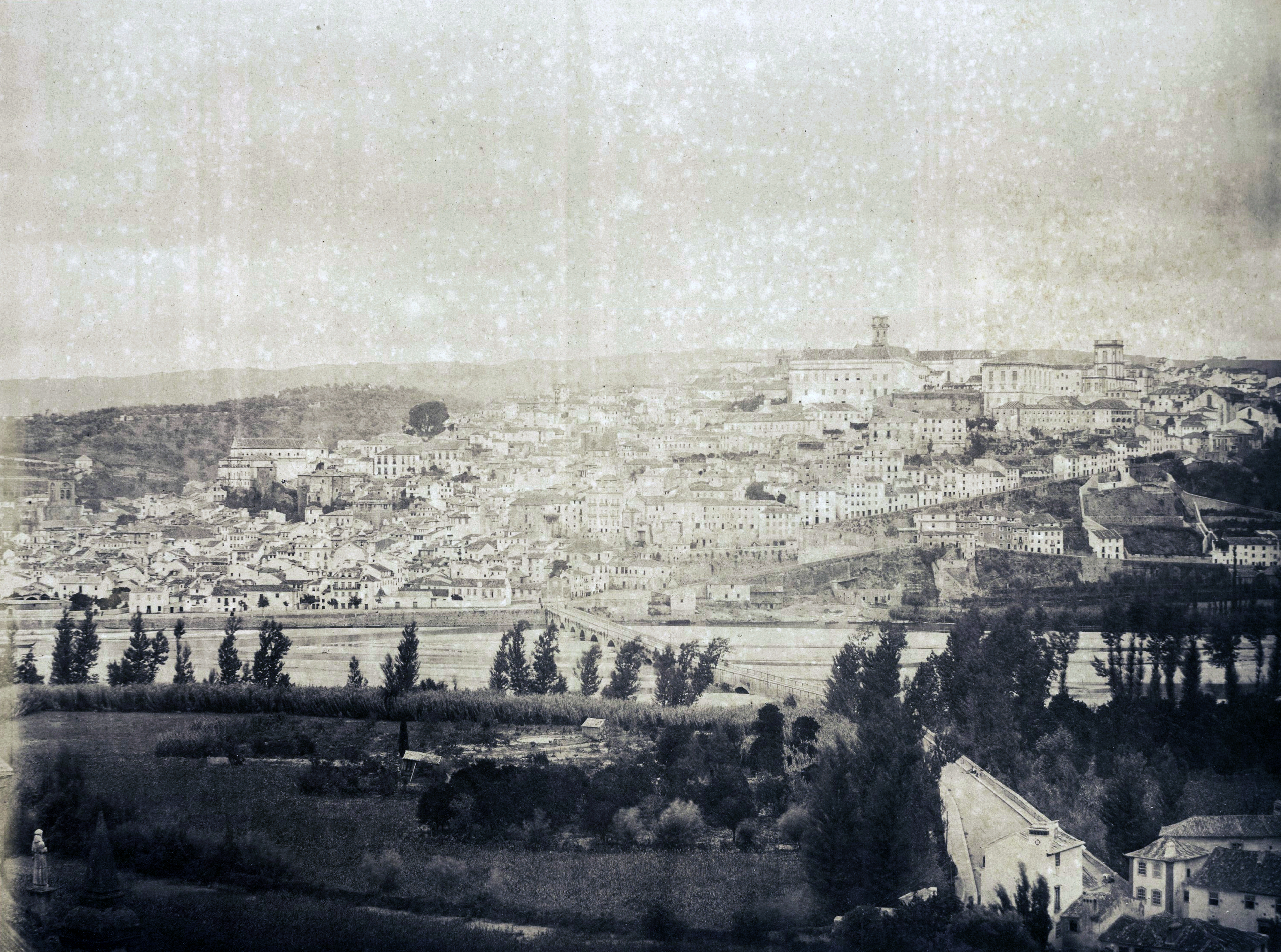 View of Coimbra, from the Santa Clara-a-Nova Convent, in 1855.